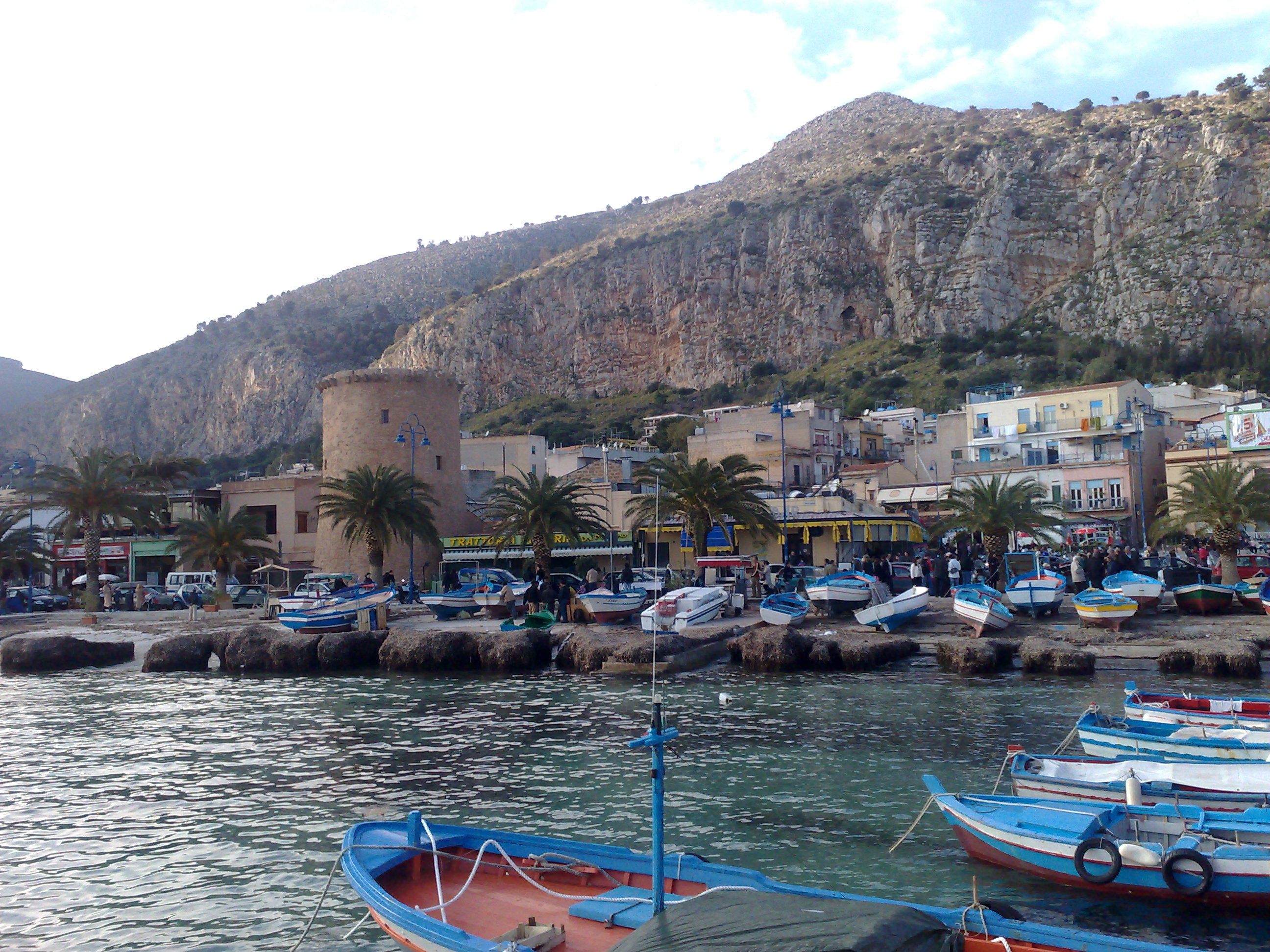 Palermo: Mondello